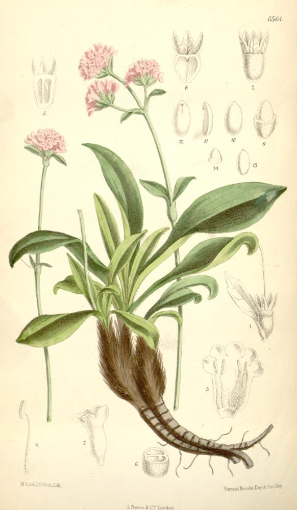 Illustration of Nardostachys grandiflora